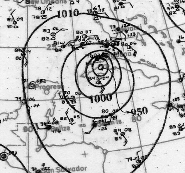 Surface analysis of the 1926 Havana hurricane crossing the western portion of Cuba as a Category 4 hurricane